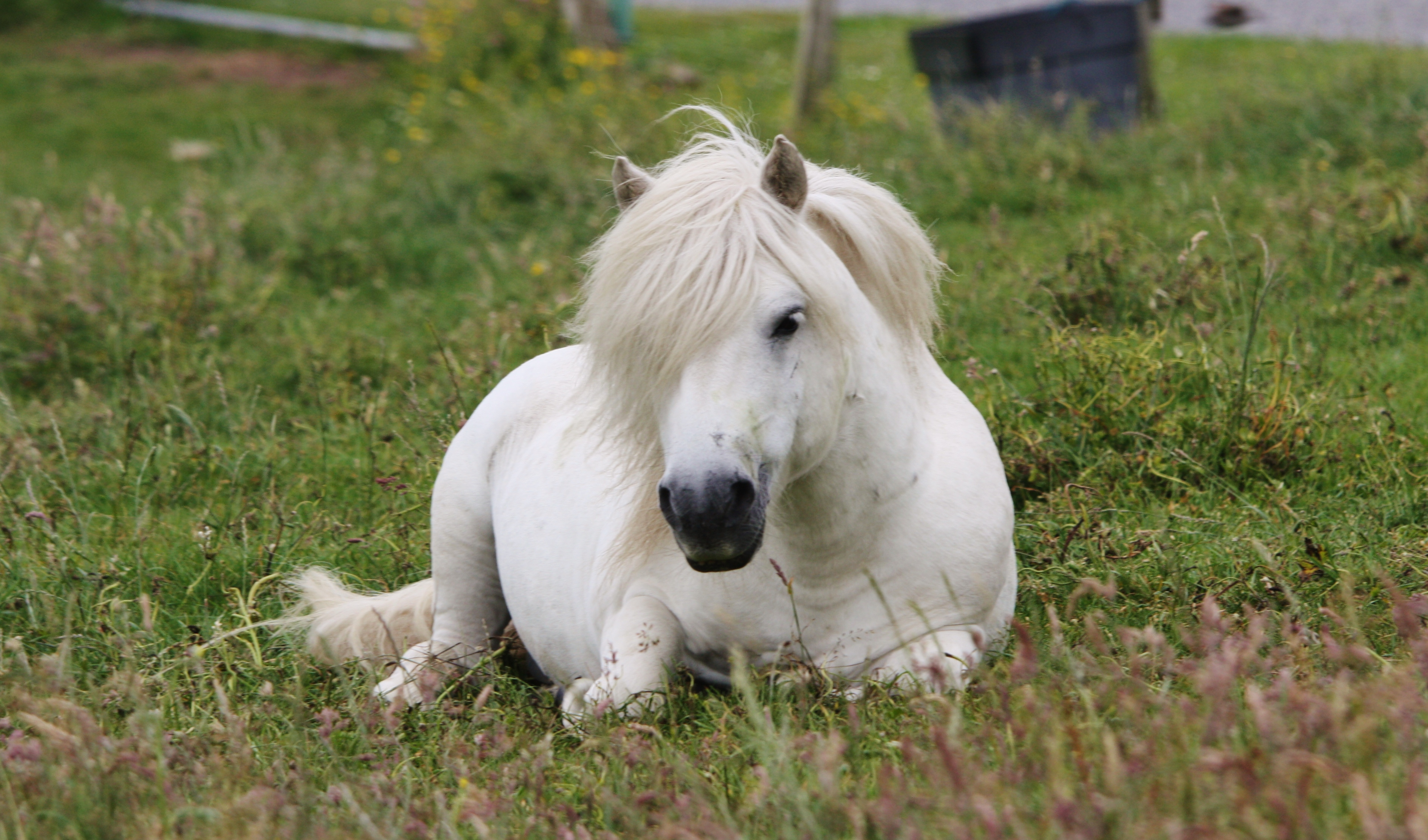 Just relaxing !